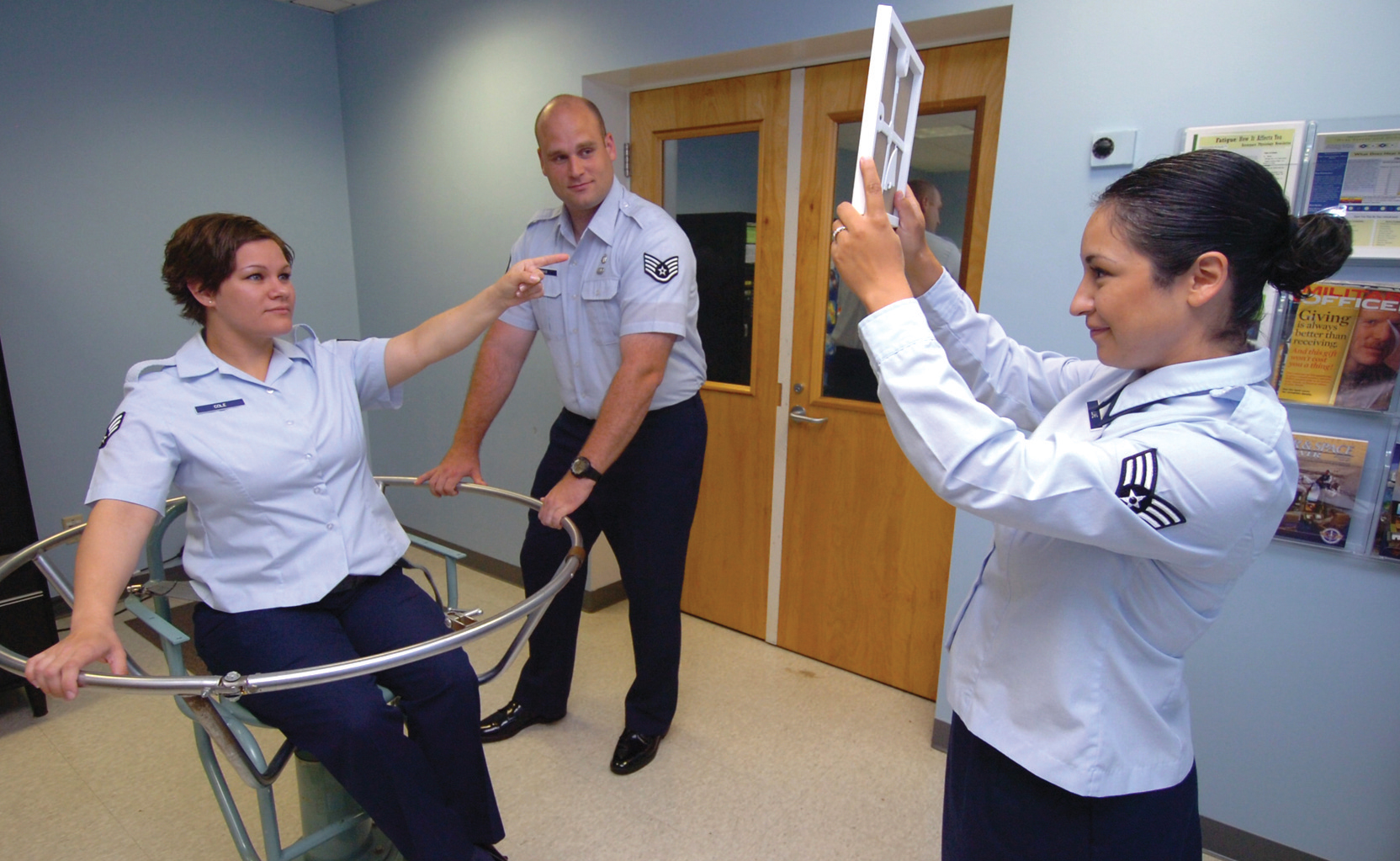 Air Force personnel demonstrating the effect on the sensory perception and spatial orientation of a test person in a Bárány chair. After first having been rotated in the chair and then stopped, the test person tries to point at a test board. The chair was invented by Robert Bárány to do his research into the role of the inner ear in the human sense of balance, for which he received the 1914 Nobel Prize in Physiology or Medicine.